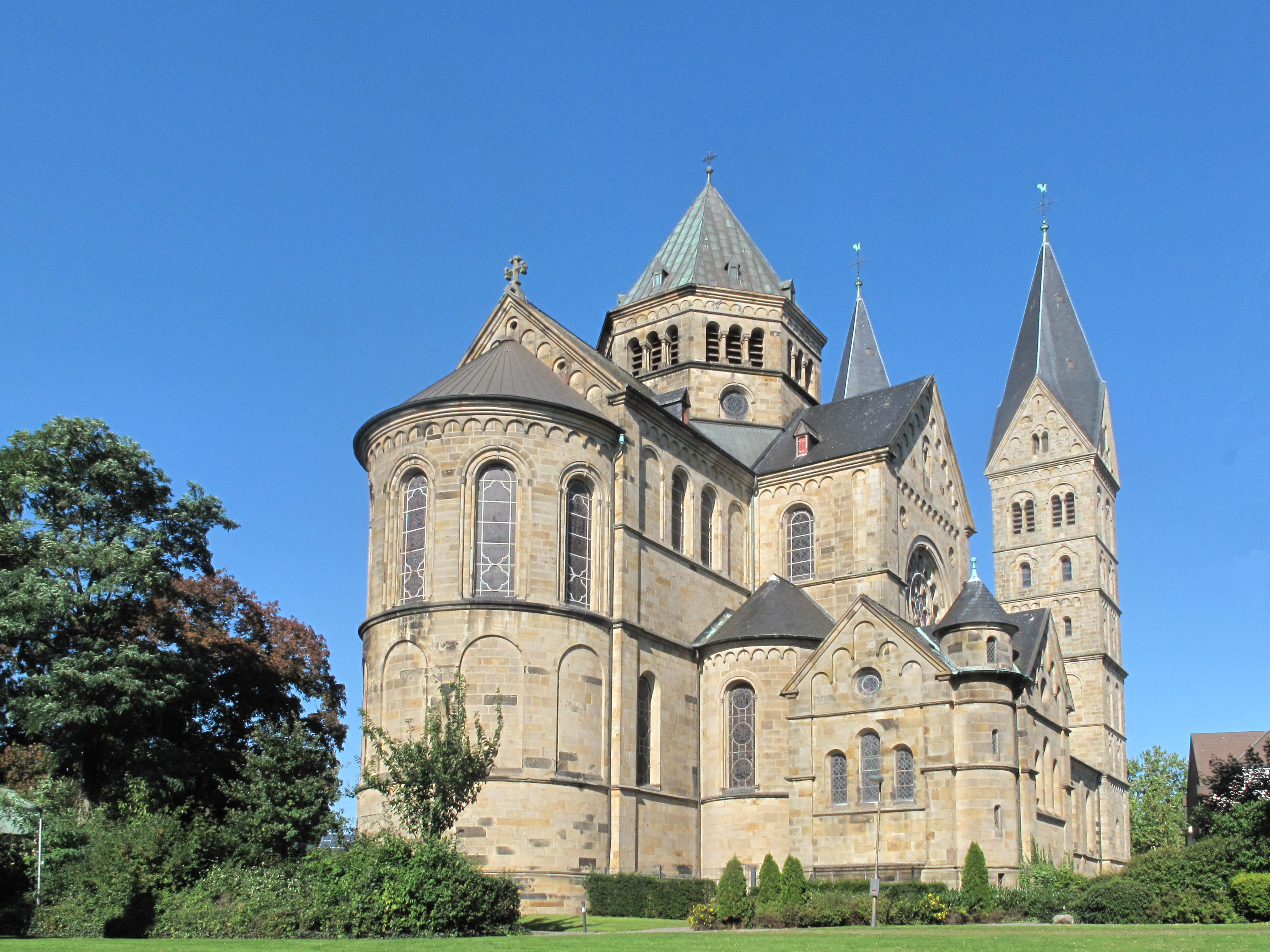 Neuenkirchen, church: die katholische Pfarrkirche Sankt Anna This is a photograph of an architectural monument.